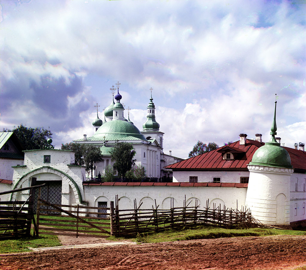 "Troitskiy Sobor" (Trinity Cathedral) in Goritsky Monastery. Photo by Prokudin-Gorsky, July 1909